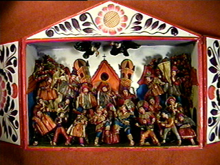 Description= Photo of Peruvian Retablo Source= taken by Jack Child Date= 26 December 2006 Author= Jack Child Permission= self - released into public domain by the creator